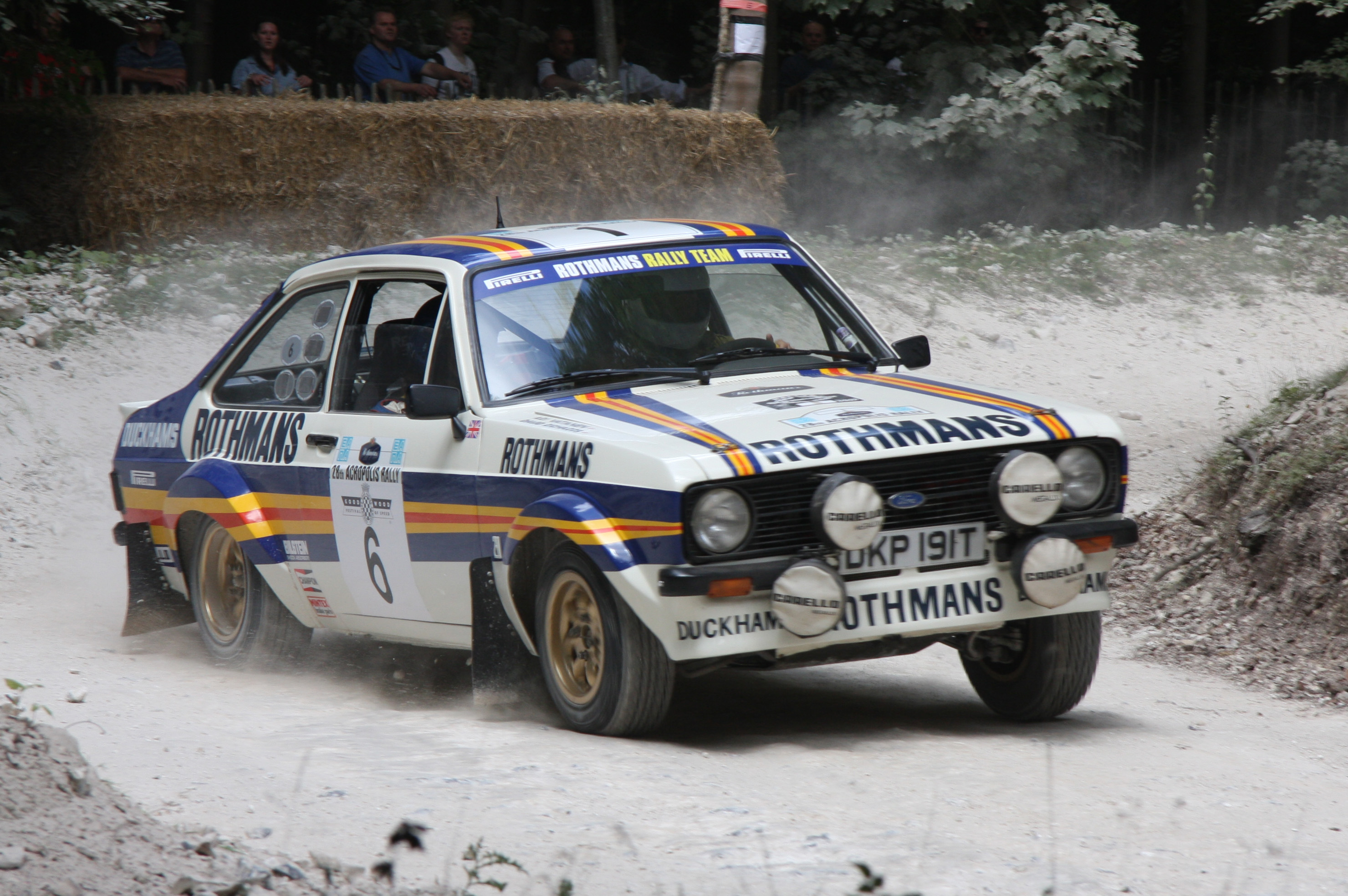 Ford Escort Mk2 Group 4